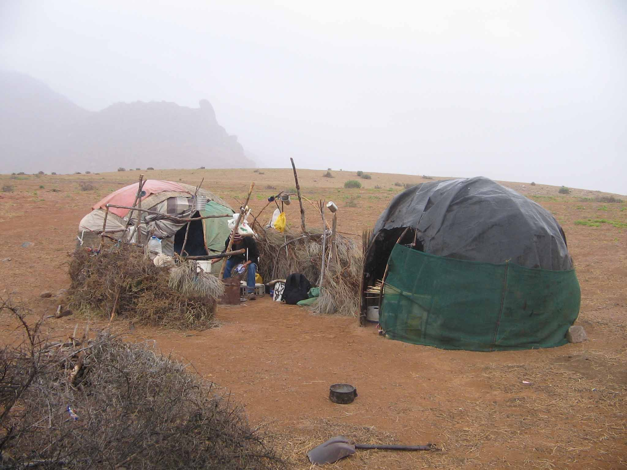 Photo taken by me in the Richtersveld (South Africa) in 2005.